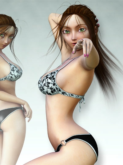 Aiko 4. Artwork by Frank Genot at